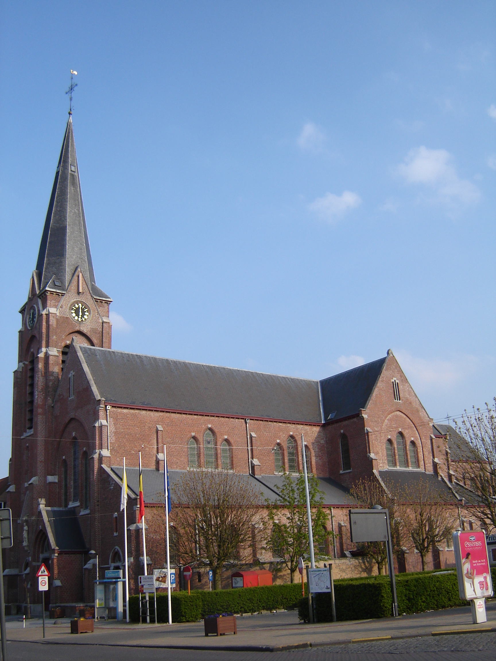 Church of Saint Bavo in Lauwe, Menen, West-Flanders, Belgium